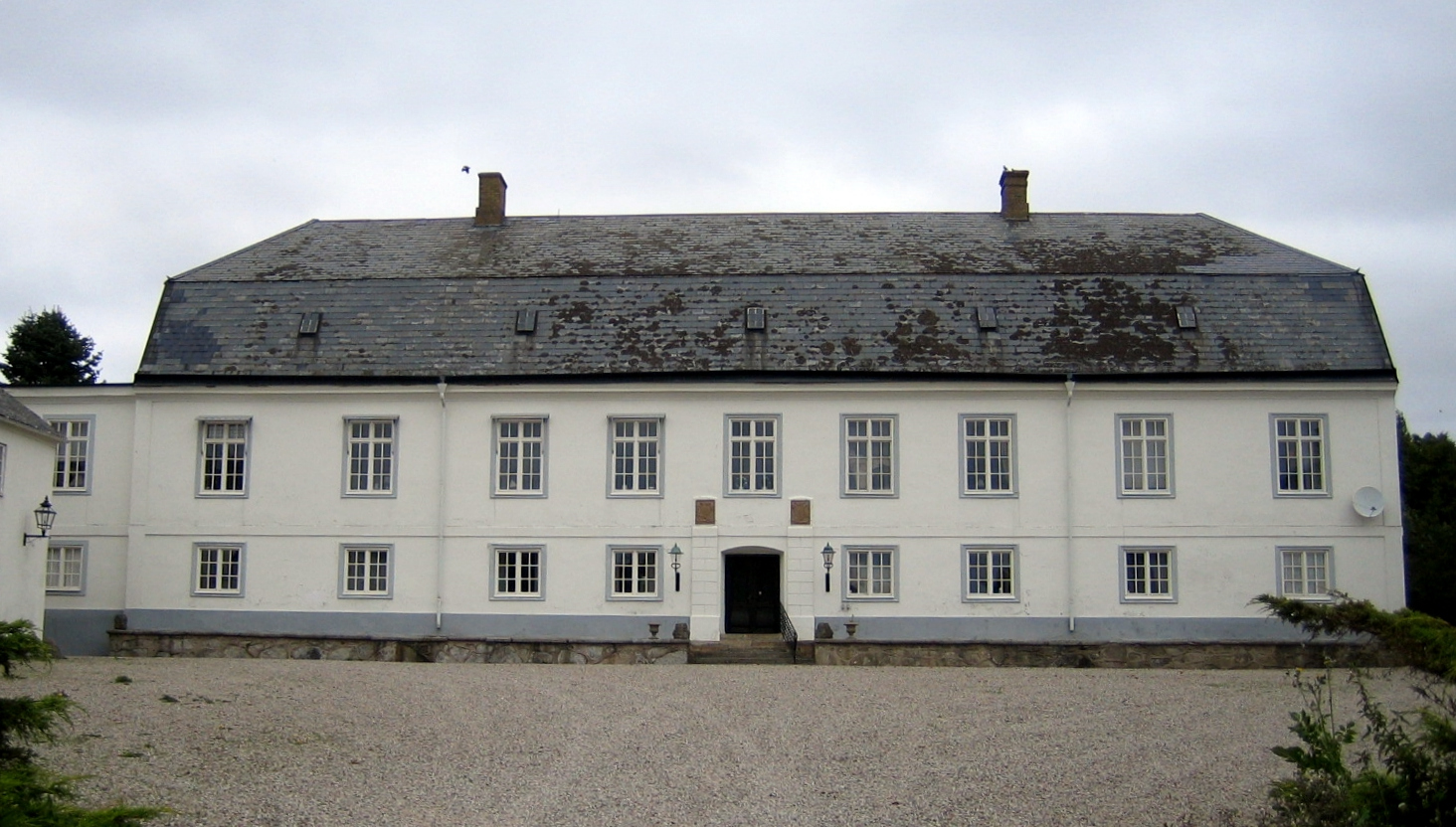 Stora Herrestad Manor in Stora Herrestad, Scania, Sweden